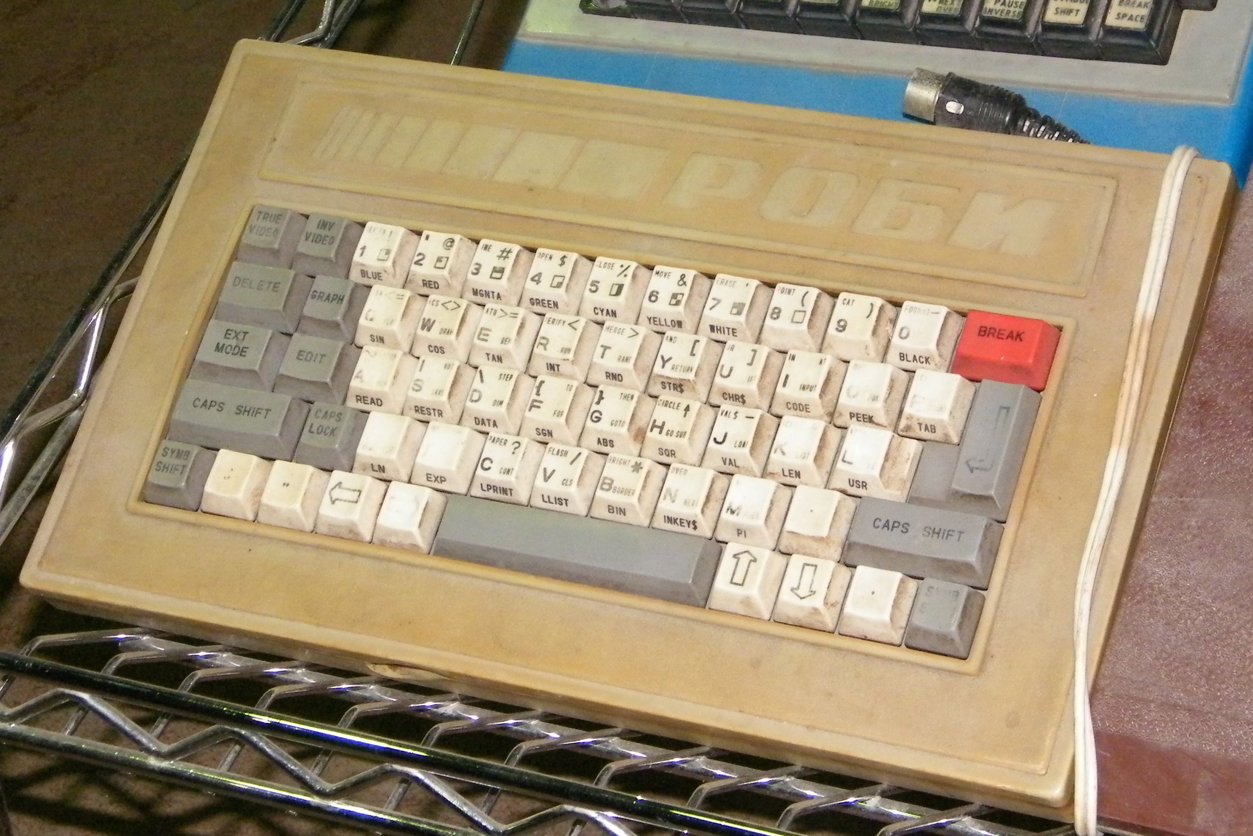 History of computing